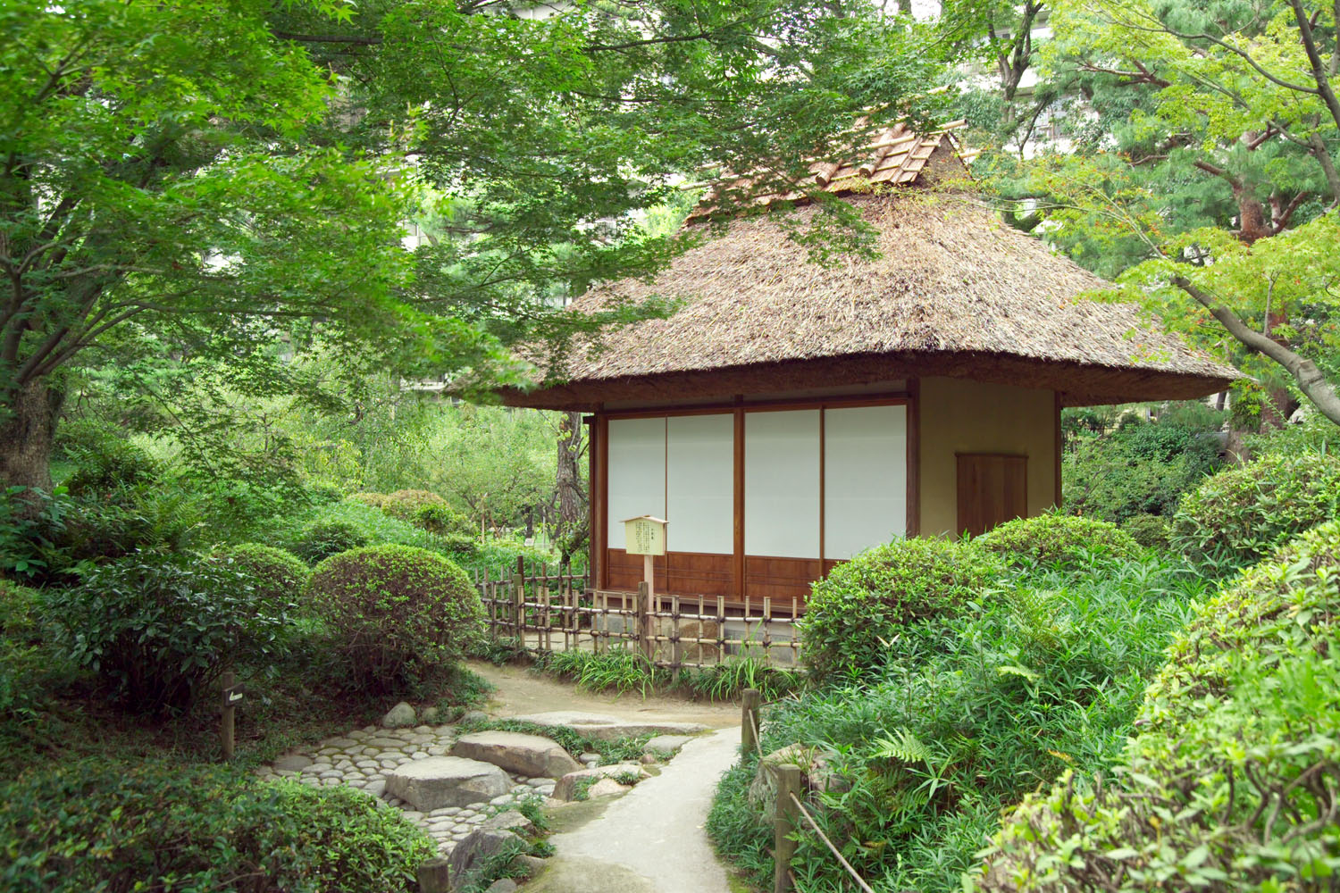 Rustic pavilion at Shukkeien, a garden near Hiroshima Castle, Hiroshima, Japan. I took this photo and contribute my rights in the file to the public domain; people and organizations retain rights to images in it.